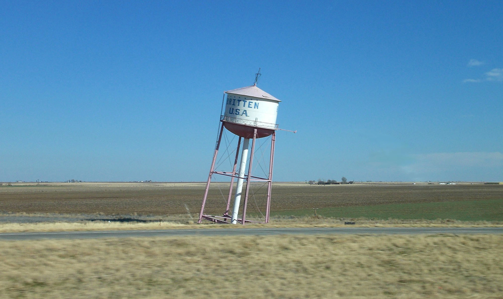 The leaning water tower, found about two miles east of Groom, Texas along I-40 (old U.S. Route 66)